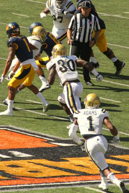 Ishmael Adams (No. 1) of UCLA Bruins against California Golden Bears